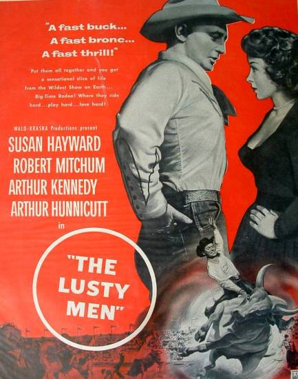 Description: Low-res image of original poster for the film The Lusty Men (1952), featuring stars Robert Mitchum and Susan Hayward